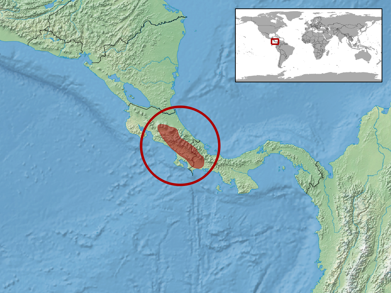 geographic distribution of Mesaspis monticola (Native: Costa Rica; Panama)